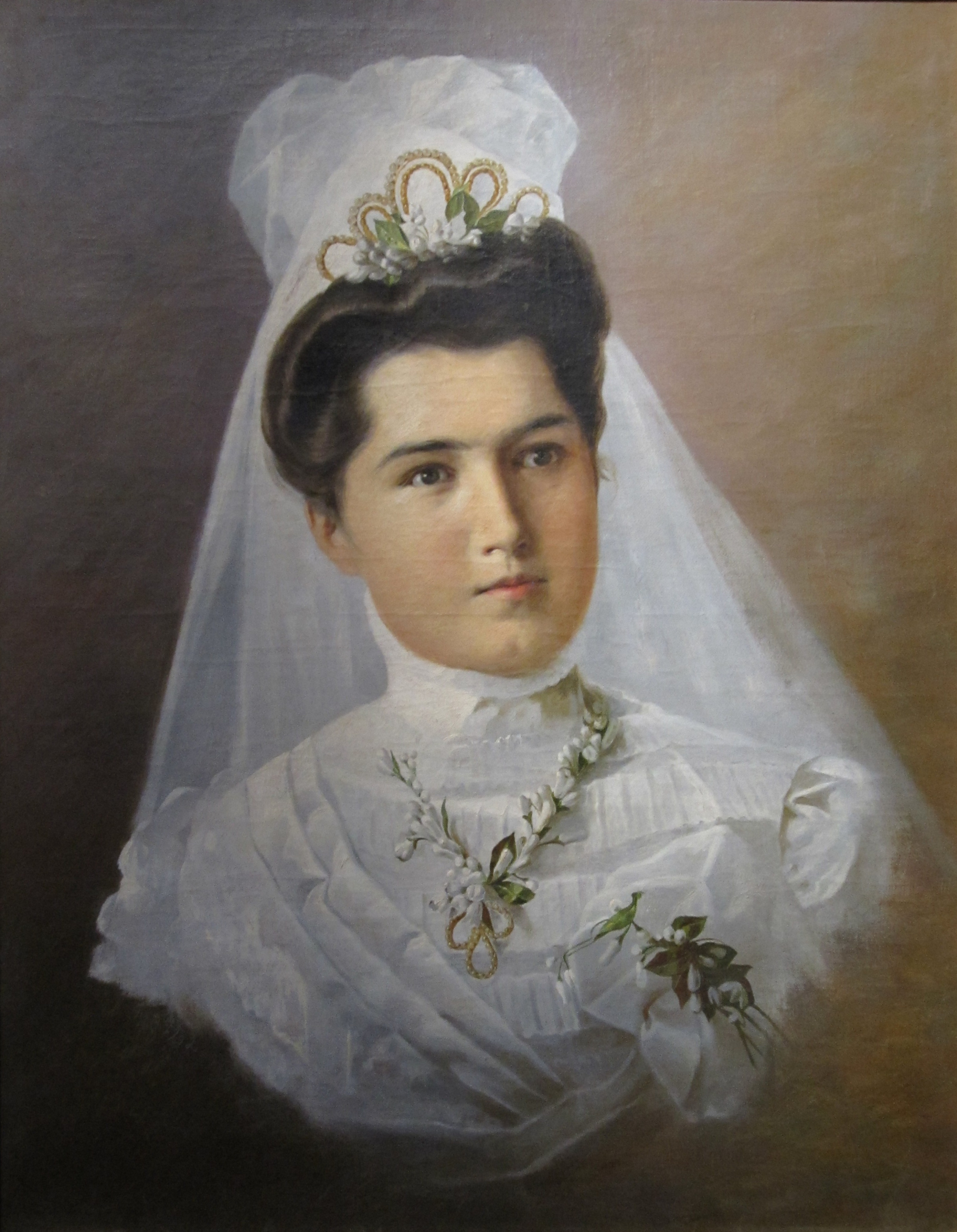 Bride Note: this image is the same size and aspect ratio as the Groom